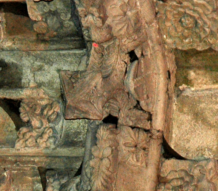 Keystone Rosslyn chapel, Edinburgh